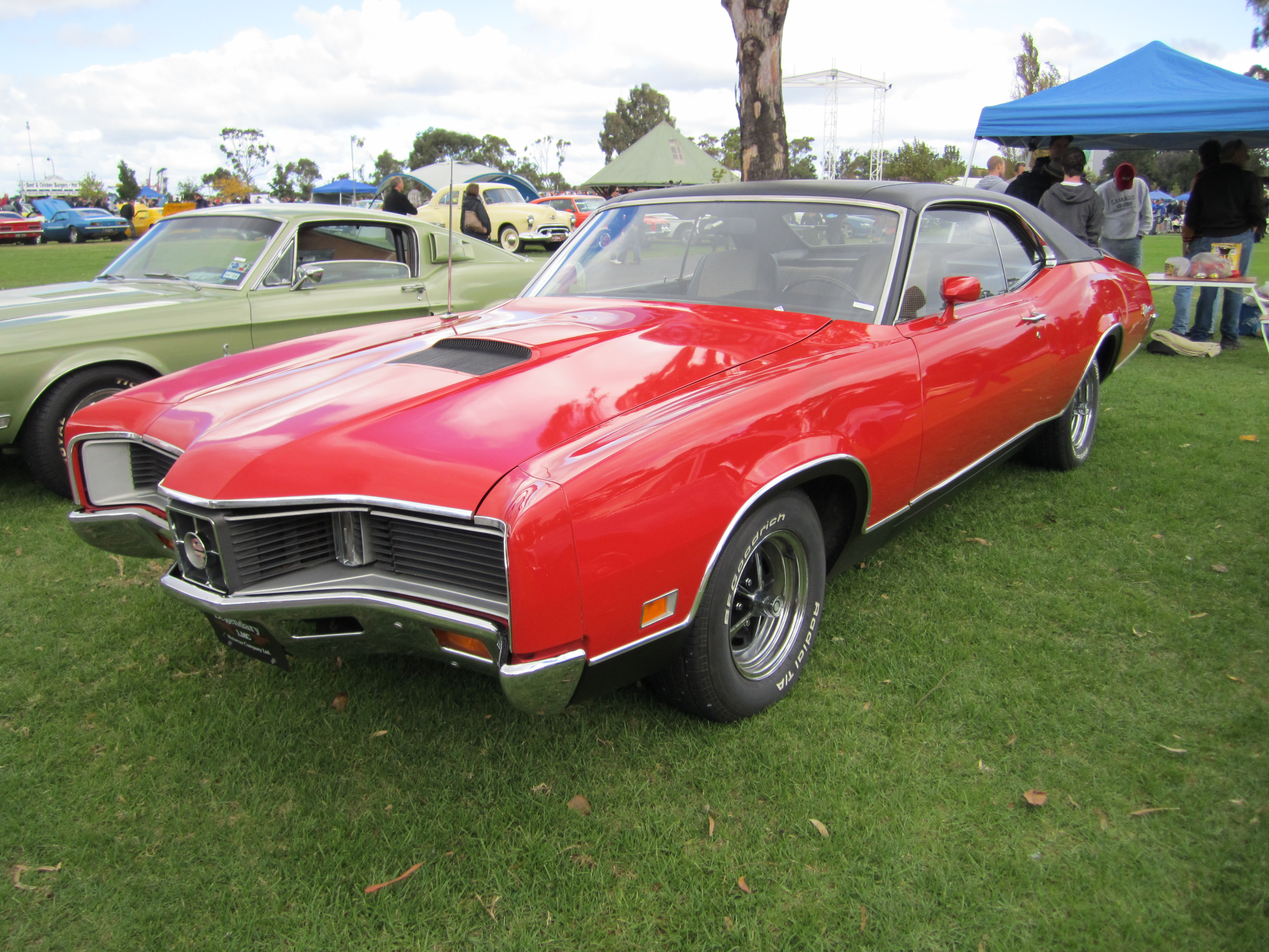 The Cyclone was built from 1964-71; an option until 1968 then the Comet name was dropped- just Cyclone. Available in 1970 as base Cyclone, GT and Spoiler. Engines; 351 Cleveland, 429 CJ and 429 SCJ